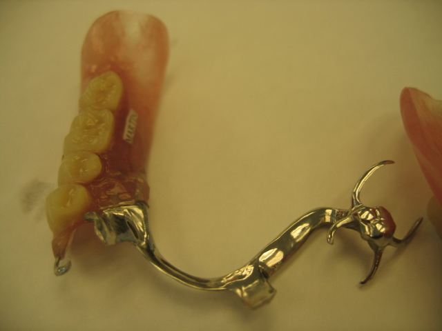 An example of a Removable partial denture].